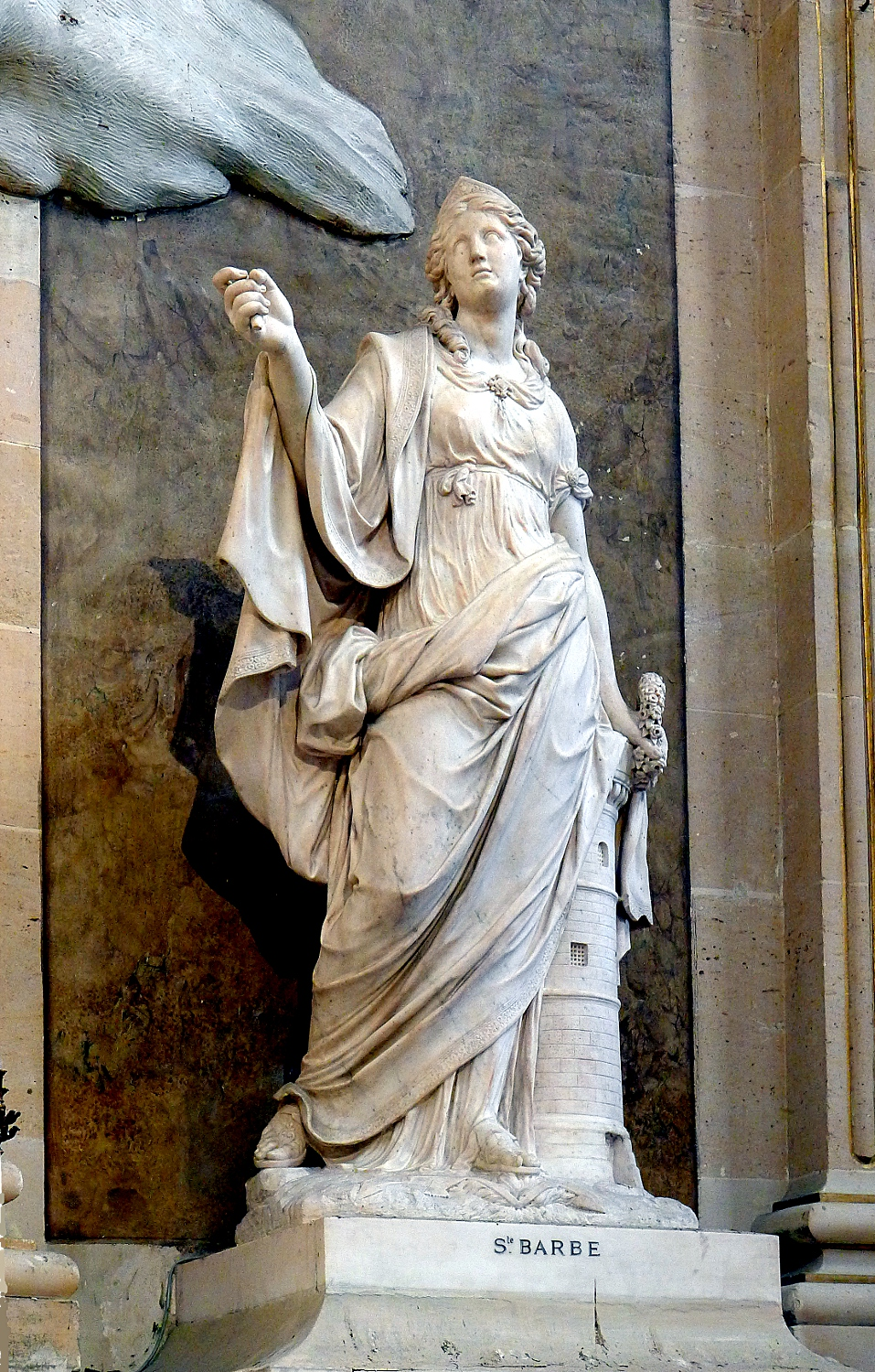 Saint-Roch church - Paris